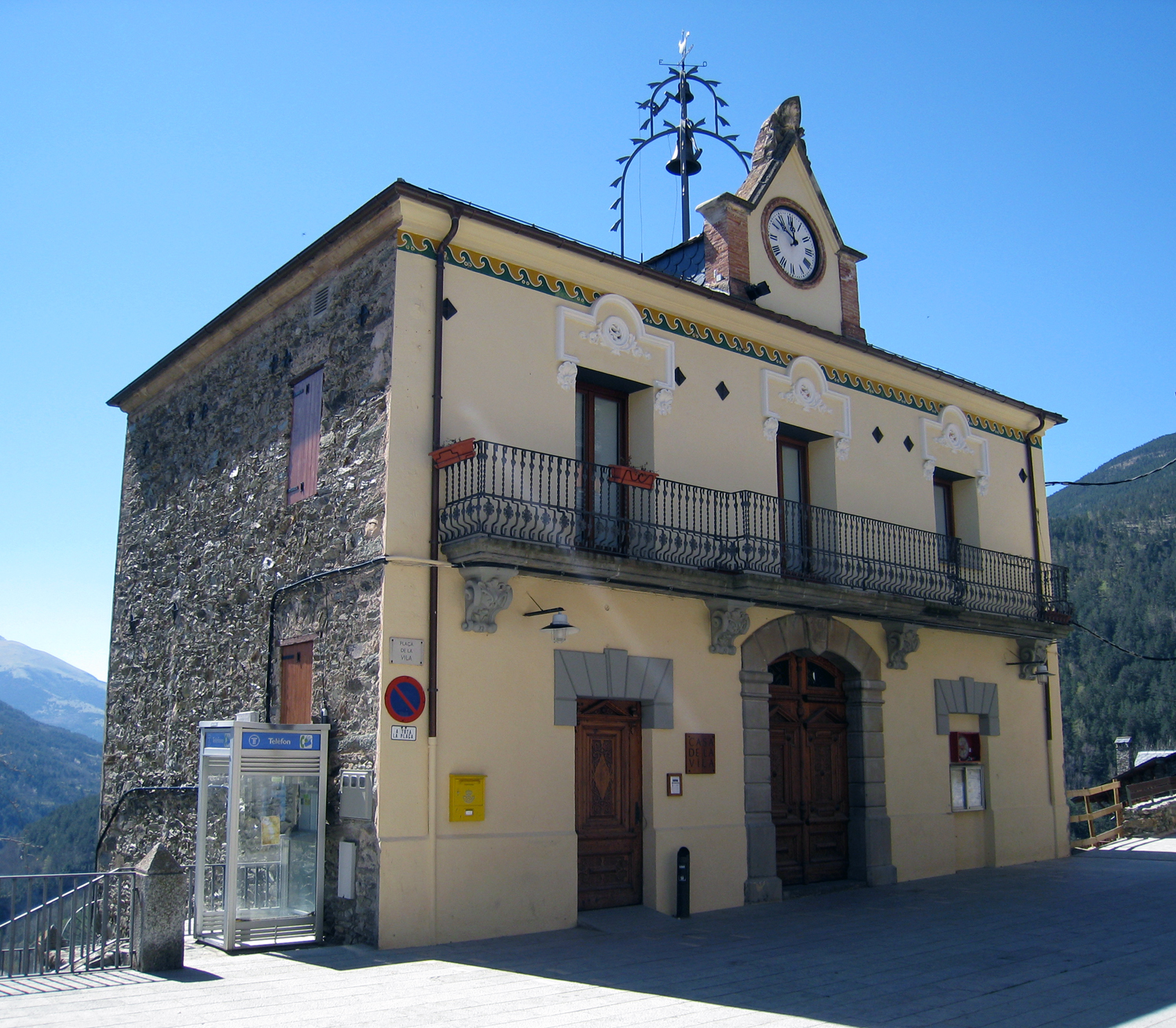 Town hall of Queralbs, Ripollès, Catalonia (Spain).